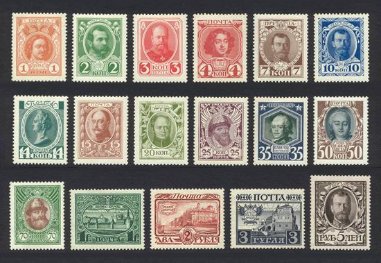 Stamps of the Russian Empire: Commemorative issue of 1913, 300th anniversary of the Romanov dynasty: 1 kopeck, Peter I (after the painting of Carel de Moor, 1717); 2 kopecks, Alexander II (after the engraving of Academician Lavrentiy Seryakov, from the portrait of Georg von Bothmann, 1873); 3 kopecks, Alexander III (after the photo of Sergey Levitsky); 4 kopecks, Peter I (after the portrait of Godfrey Kneller, 1698); 7 & 10 kopecks, & 5 rubles, Nicholas II (after photo); 14 kopecks, Catherine II (after the sculptural bas-relief portrait by Marie-Anne Collot, 1780s); 15 kopecks, Nicholas I (after the portrait of Franz Krüger, 1850); 20 kopecks, Alexander I (after the portrait of George Dawe); 25 kopecks, Aleksey Mikhailovich (after the engraving from the handwritten book Bolshoy Moskovsky Titulyarnik, 1672); 35 kopecks, Paul I (after the portrait of Jean-Louis Voille, 1791); 50 kopecks, Elizabeth Petrovna (after the portrait of Louis Tocqué, 1756); 70 kopecks, Mikhail Feodorovich (after the engraving from the handwritten book Bolshoy Moskovsky Titulyarnik, 1672); 1 ruble, Moscow Kremlin (after photo); 2 rubles, Winter Palace in St. Petersburg (architect Bartolomeo Rastrelli, after a photo); 3 rubles, House of the Boyars Romanov in Zaryadye in Moscow (builder Meletius Alekseyev, 1565–67, after a photo)